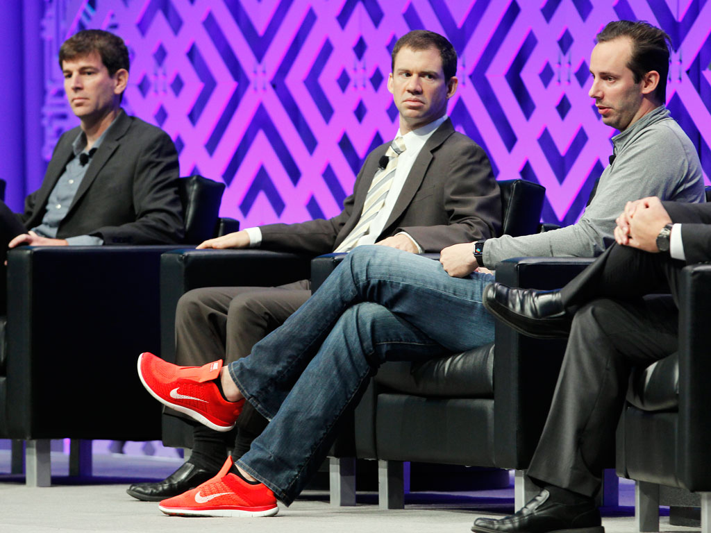 Autonomous trucking panelists Josh Switkes of Peloton, Sean Waters of Daimler and Anthony Levandowski of Otto. (John Sommers II for Transport Topics)